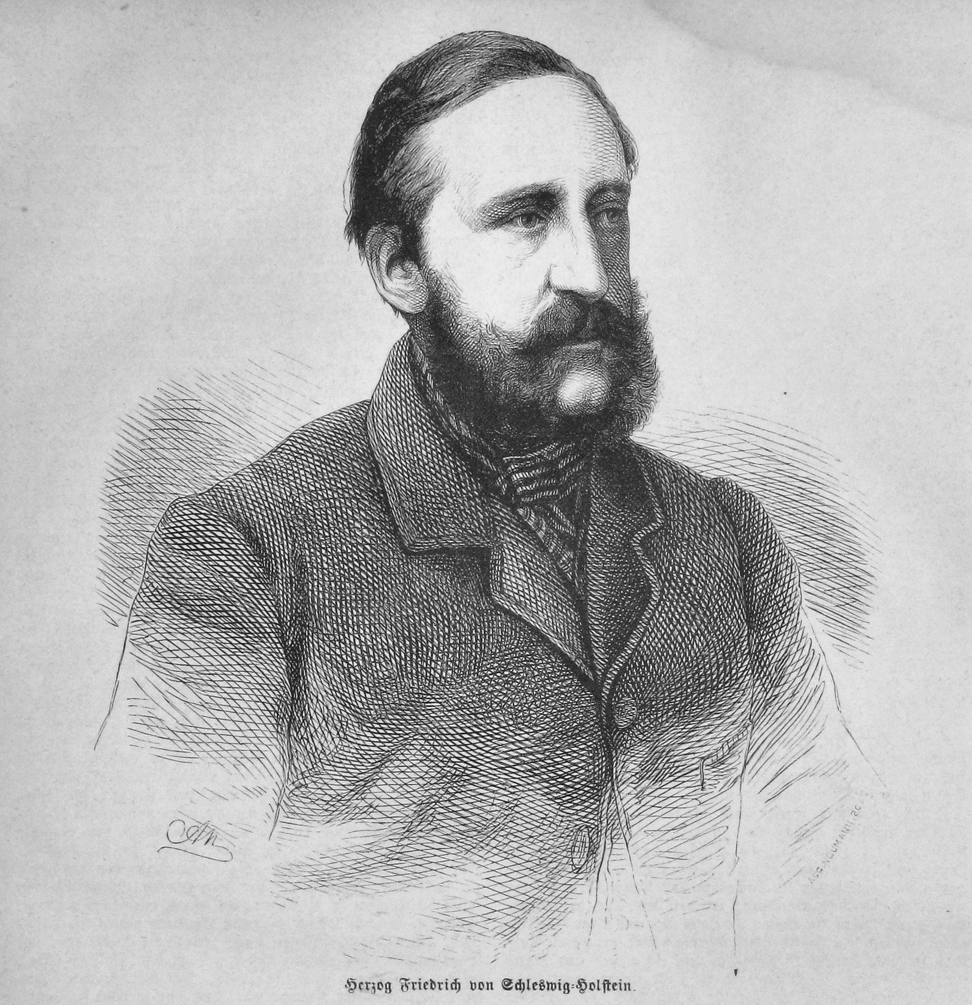 caption: "Herzog Friedrich von Schleswig-Holstein."